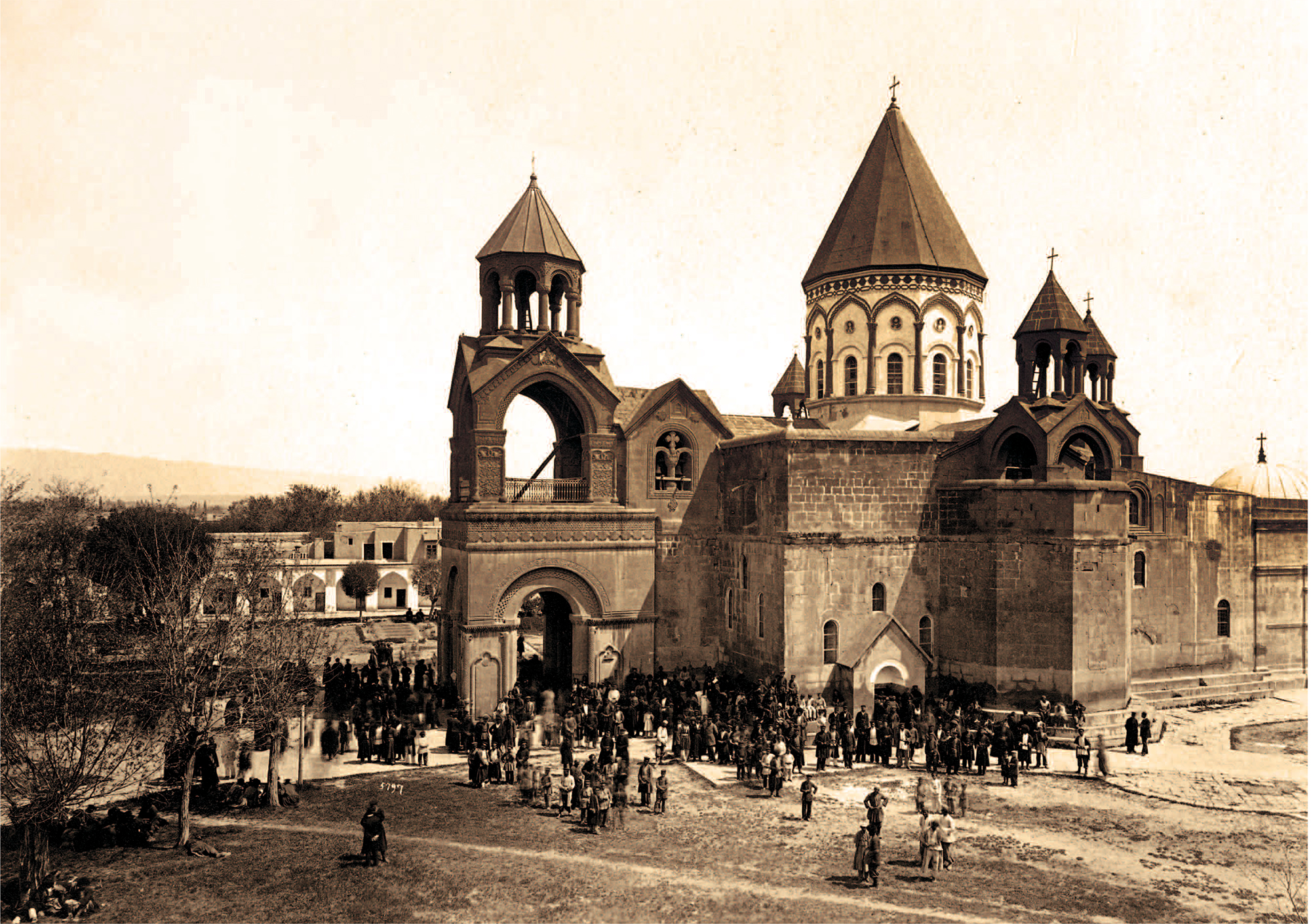 The Etchmiadzin Cathedral in the early 20th century